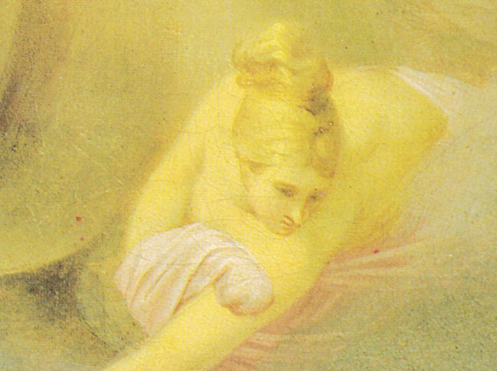 Detail from the painting Apoll mit den Stunden by Georg Friedrich Kersting (see File:Kersting - Apoll mit den Stunden.jpg). Detail shows one of the 12 horae.